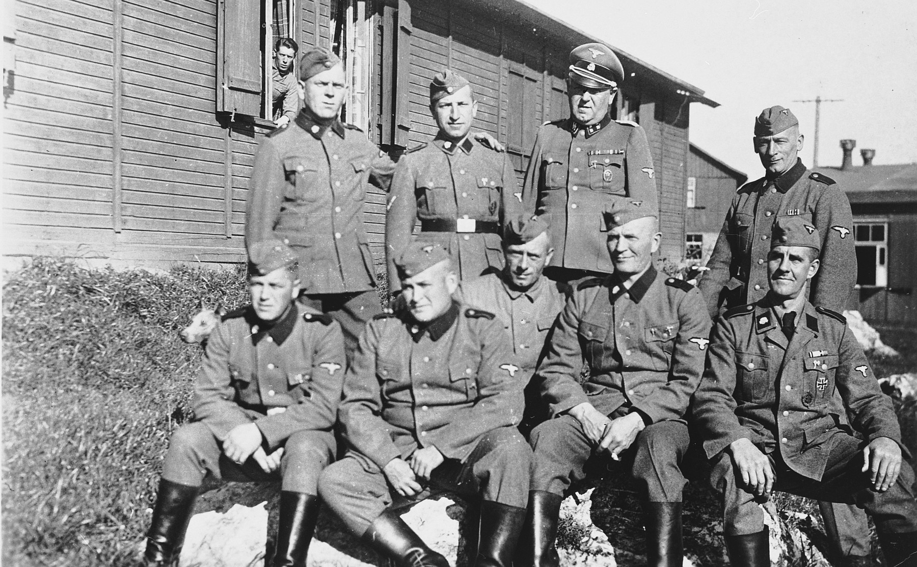 Group portrait of SS men with Camp Commander SS-Standartenführer Pister in front of a barrack in the Hinzert concentration camp.